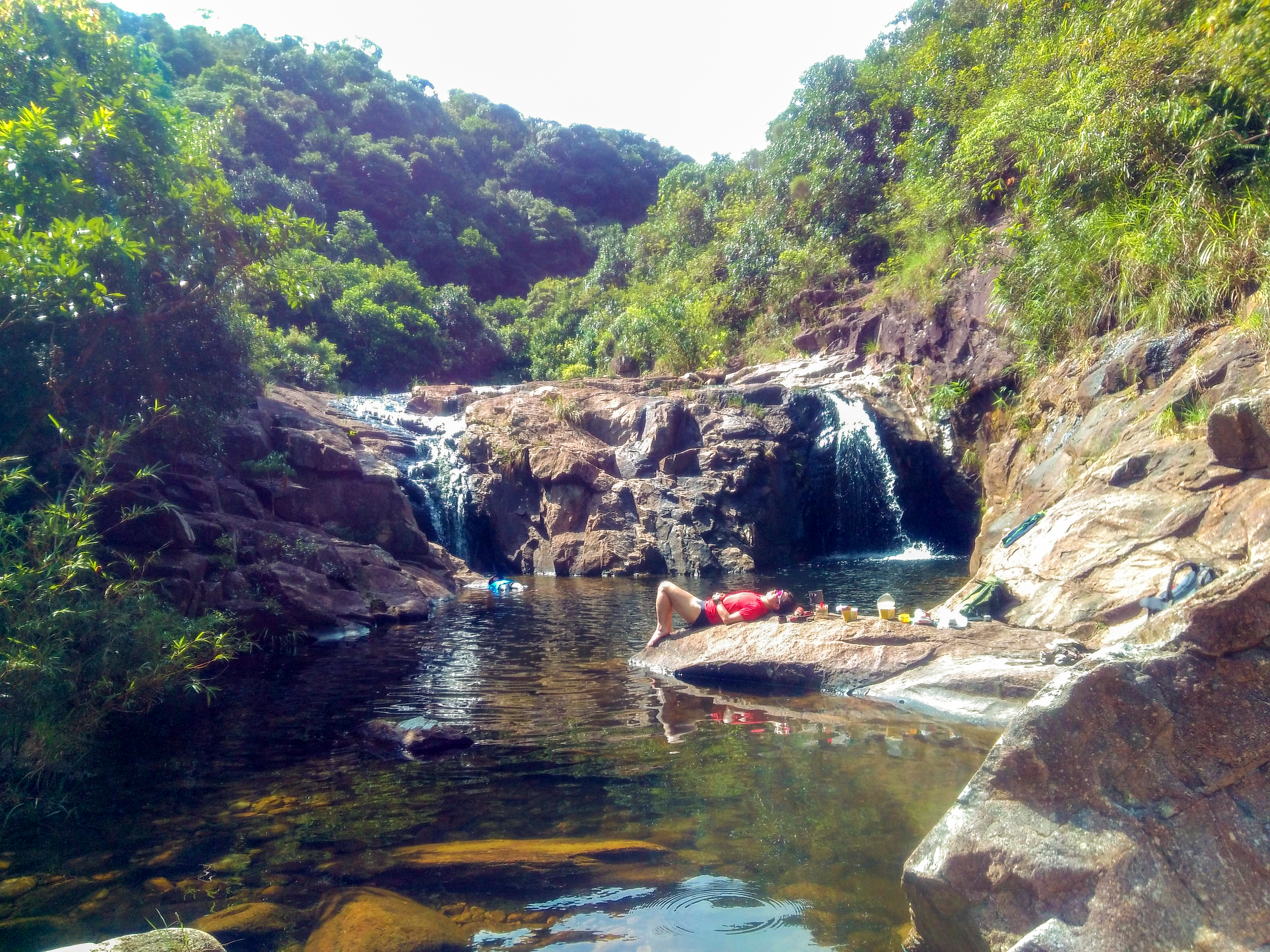 Wang Chung Stream